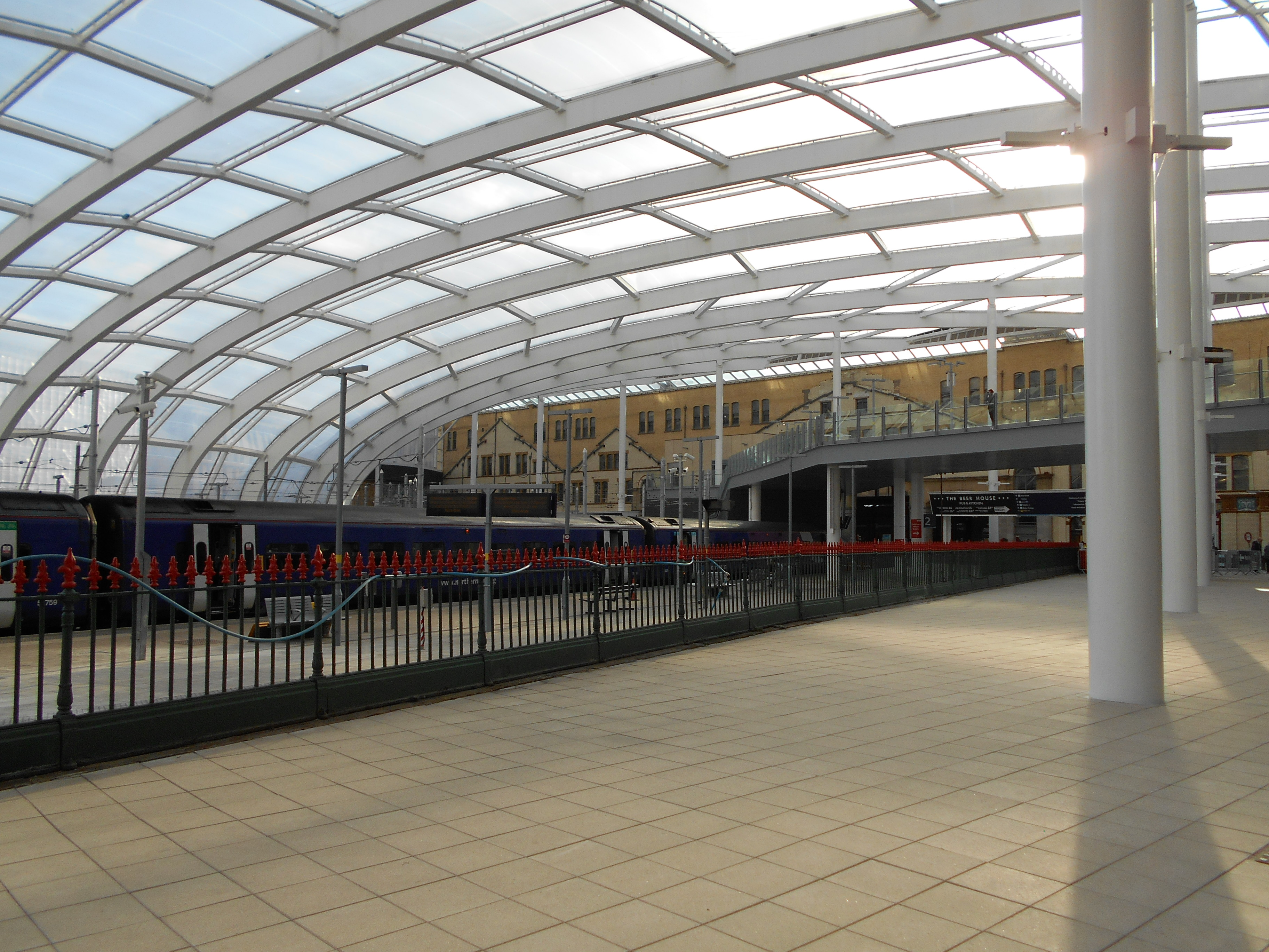 View of the new roof at Manchester Victoria.